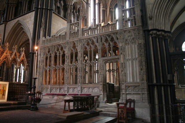 Prince Arthur's Chantry, Worcester Cathedral On the south side of the high altar, the chantry contains the tomb of Prince Arthur who died in 1502. It was completed by 1516 when it was blessed by Bishop Suffragan. It was a place where prayers would be said for the dead prince's soul as well as housing his tomb.